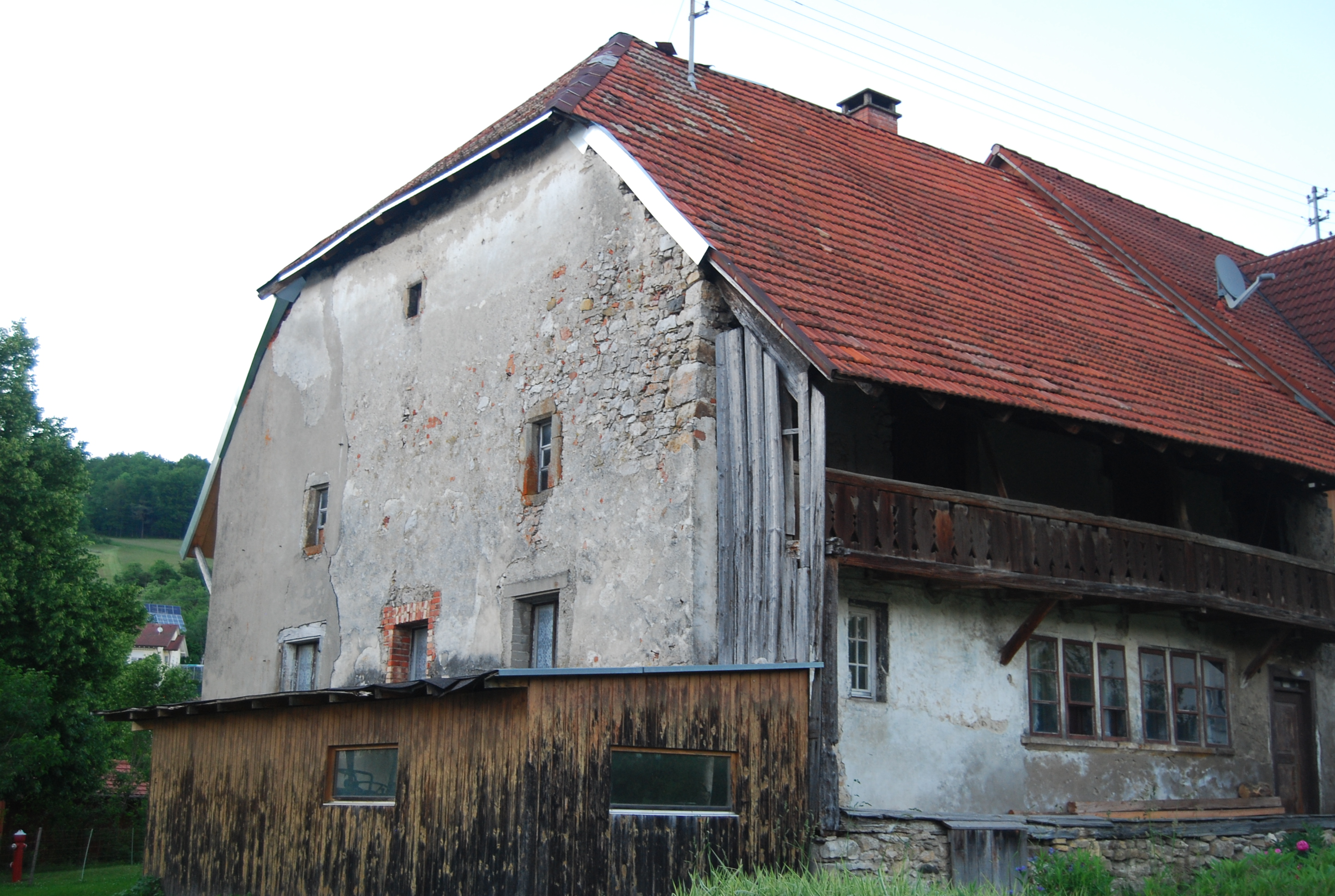 Late Gotik House in Birkingen